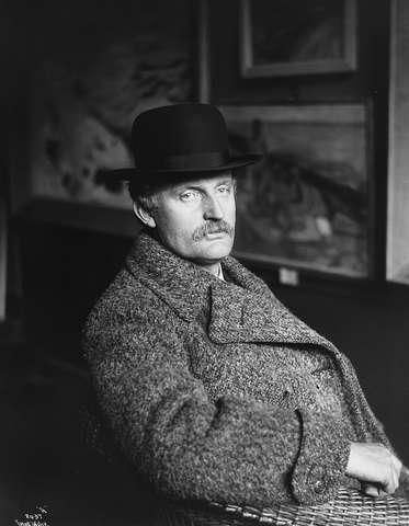 Norwegian painter Edvard Munch.